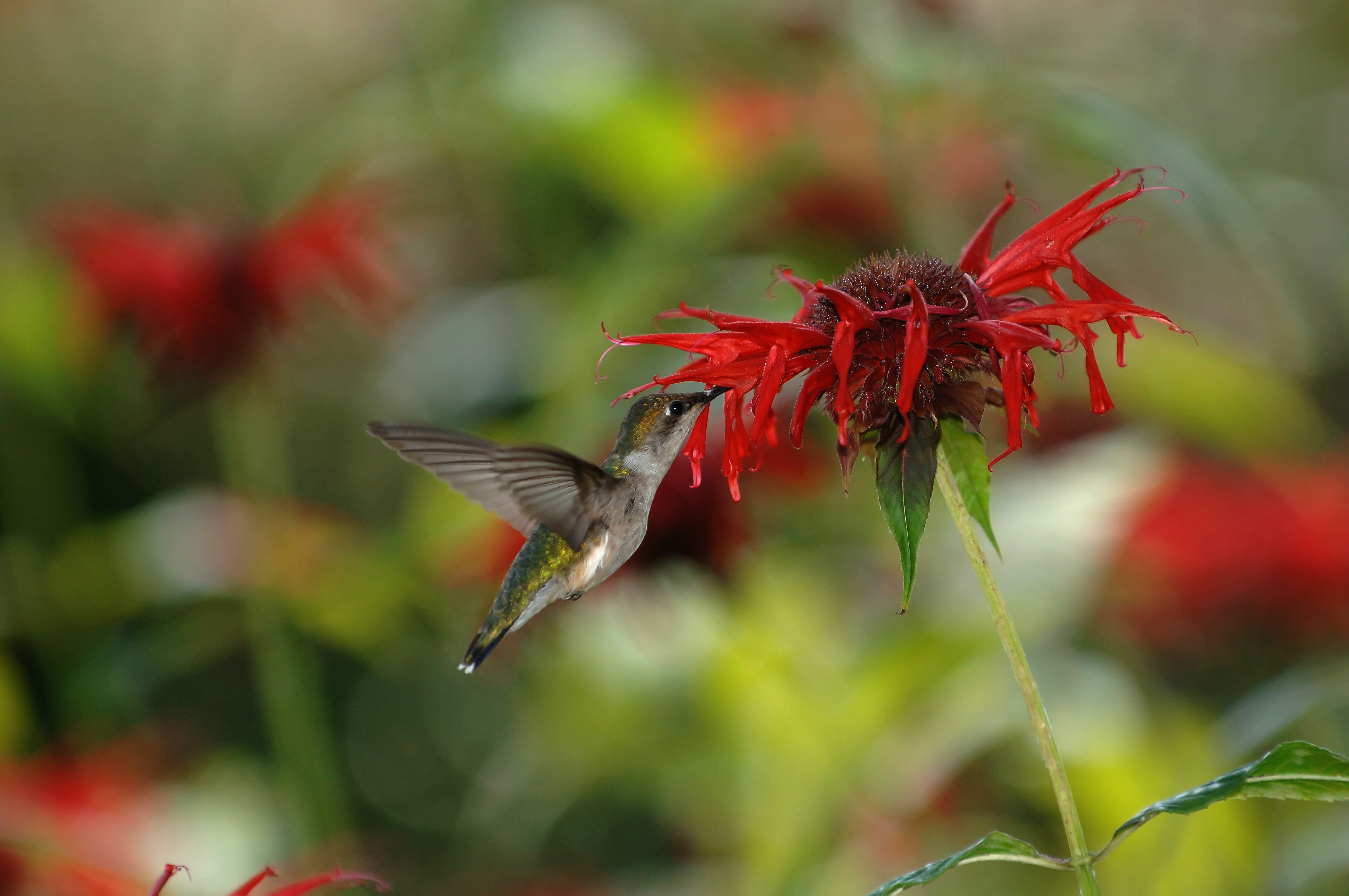 A female ruby-throated hummingbird (Archilochus colubris) sipping nectar from scarlet beebalm (Monarda didyma).